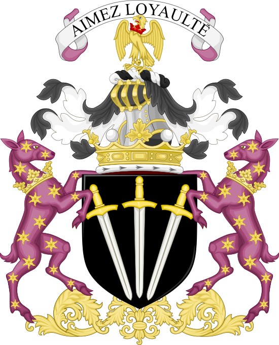 coat of arms of the marquess of Winchester - Premier marquess of England Arms. Sable three Swords in pile points downwards proper pommelled and hilted Or. Crest. A Falcon displayed Or belled of the same and ducally collared Gules. Supporters. On either side a Hind Purpure semée of Estoiles and ducally gorged Or. Motto. Aimez Loyaulté (Love loyalty). Cracroft's Peerage